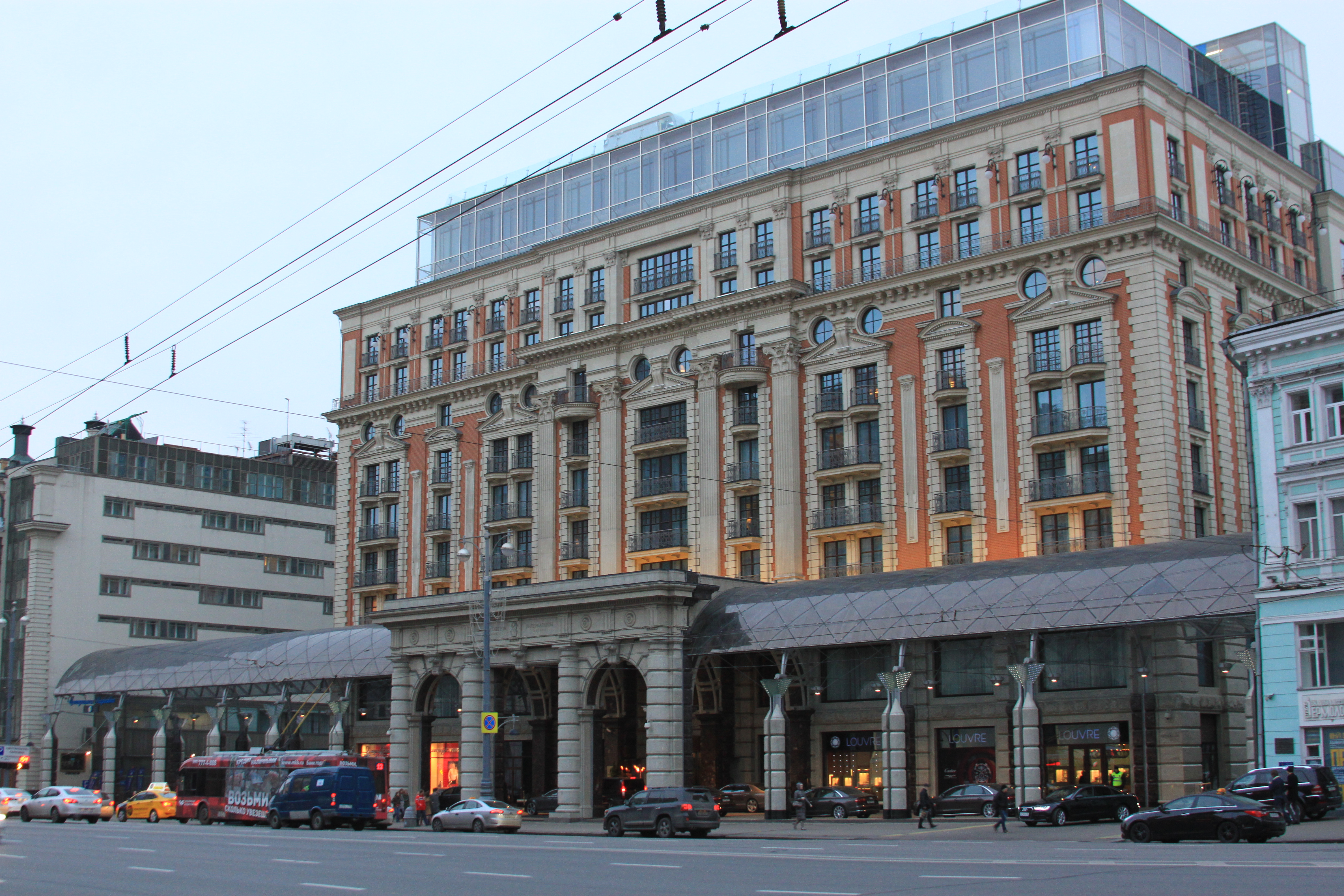 Hotel «The Ritz-Carlton», Moscow (Ритц-Карлтон Москва)